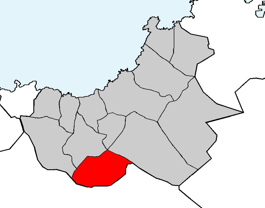 Location of the parish of Larín in the municipality of Arteixo (Galicia, Spain)